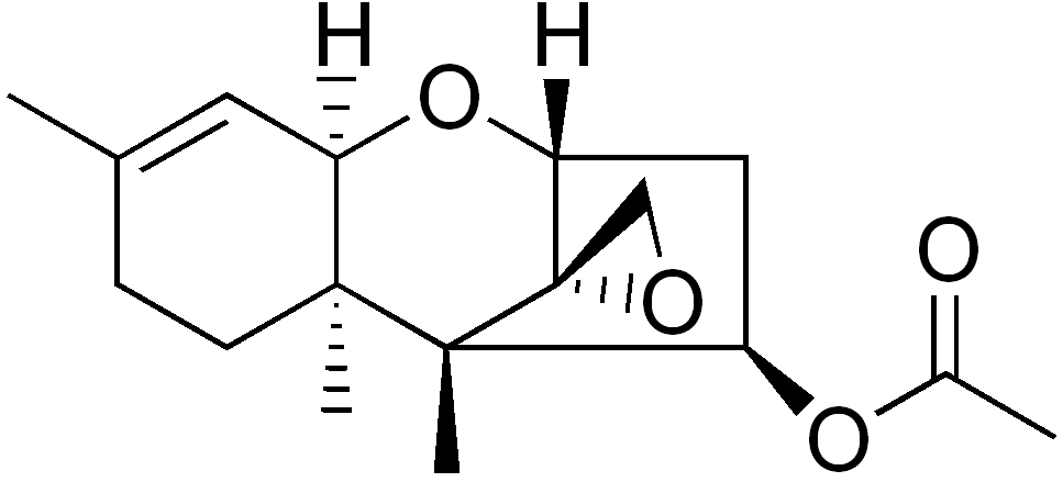 chemical structure of trichodermin